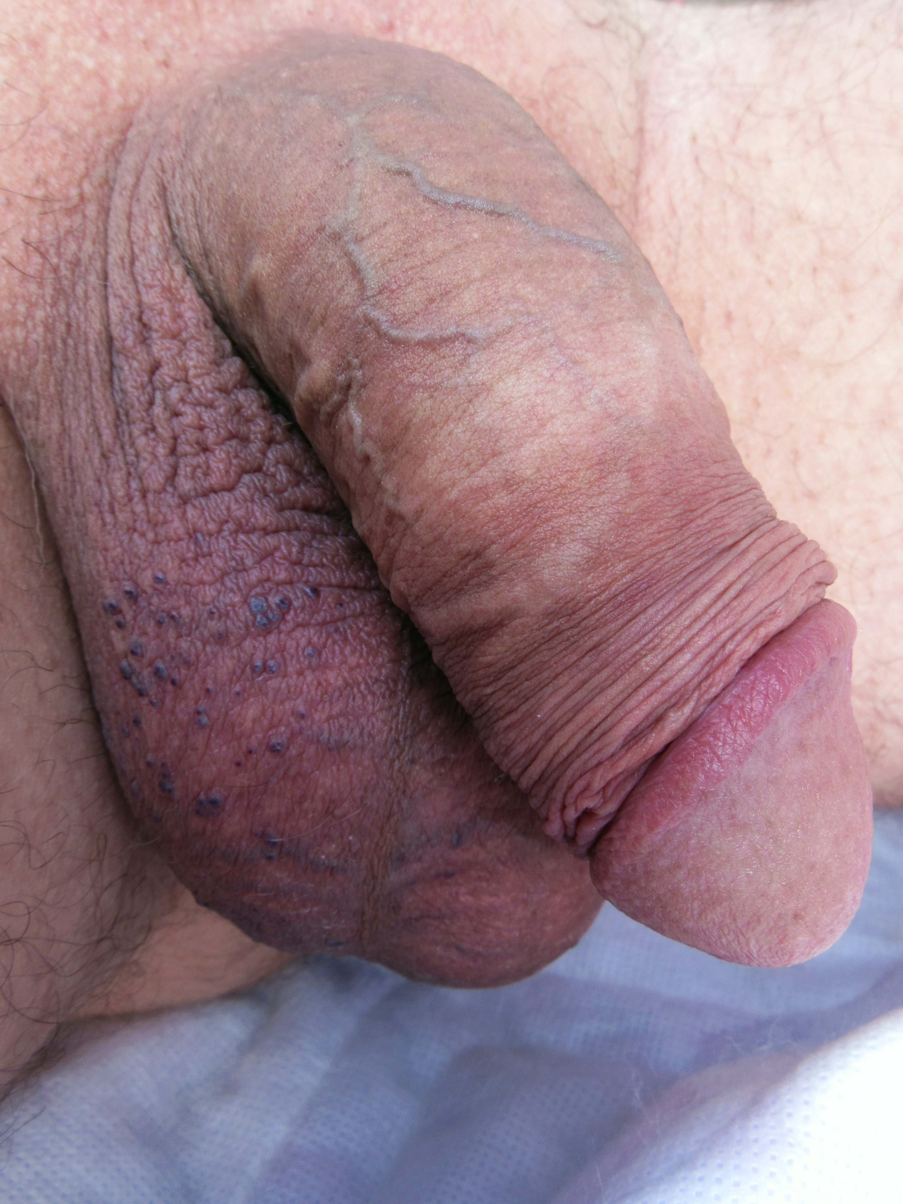 Angiokeratoma of the scrotum